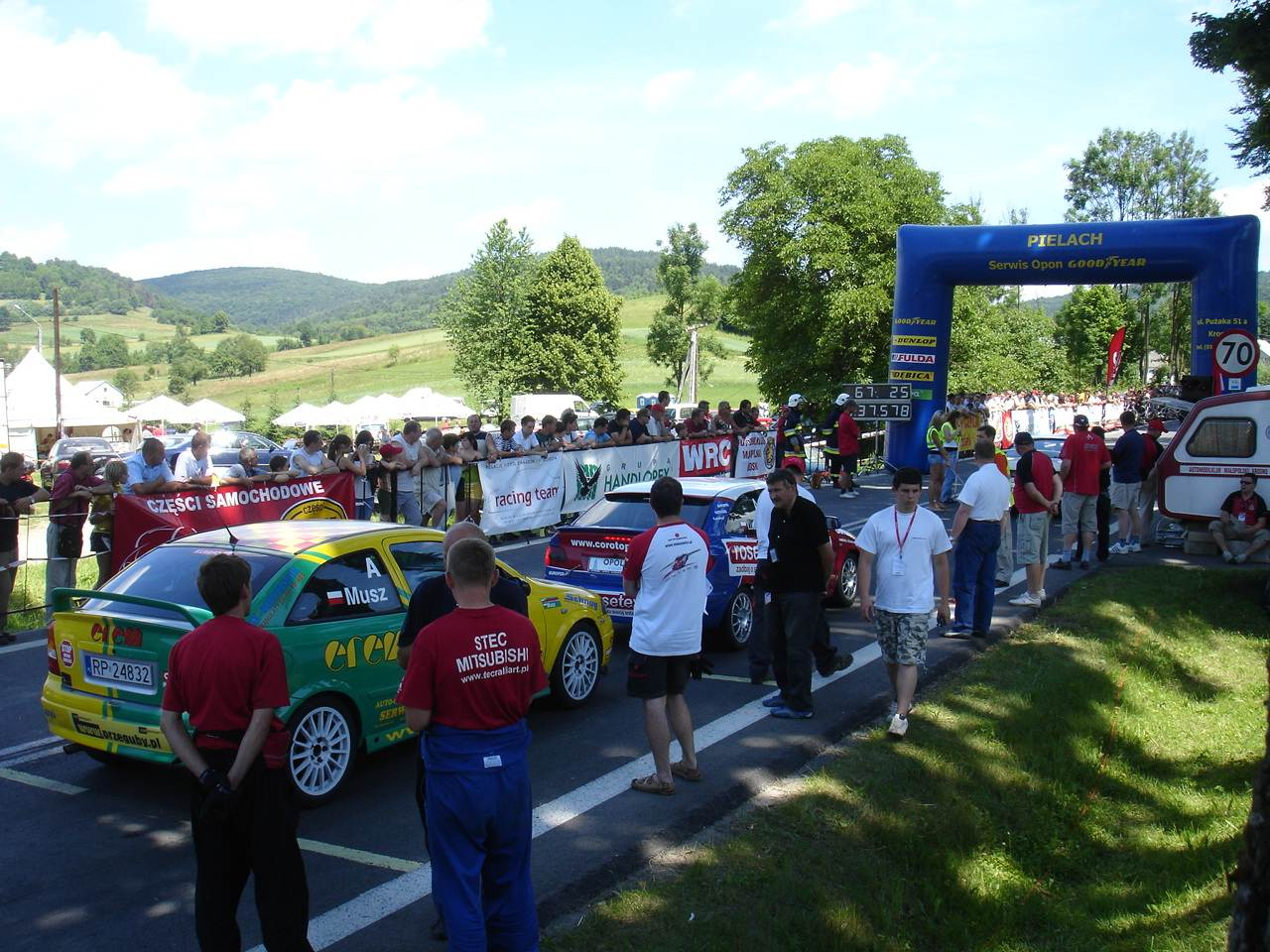 Wujskie near Sanok. Bieszczady Mountain Racing. 2008